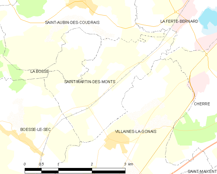 Map of French municipality